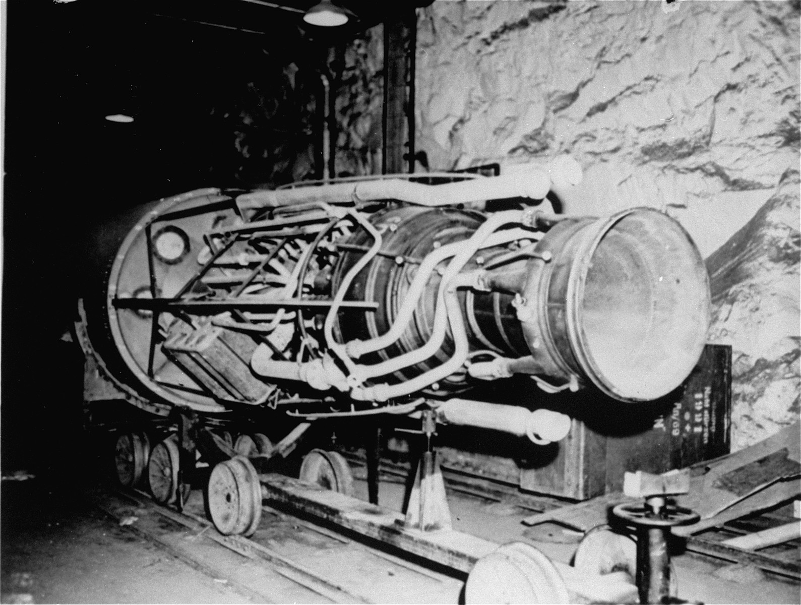 See title